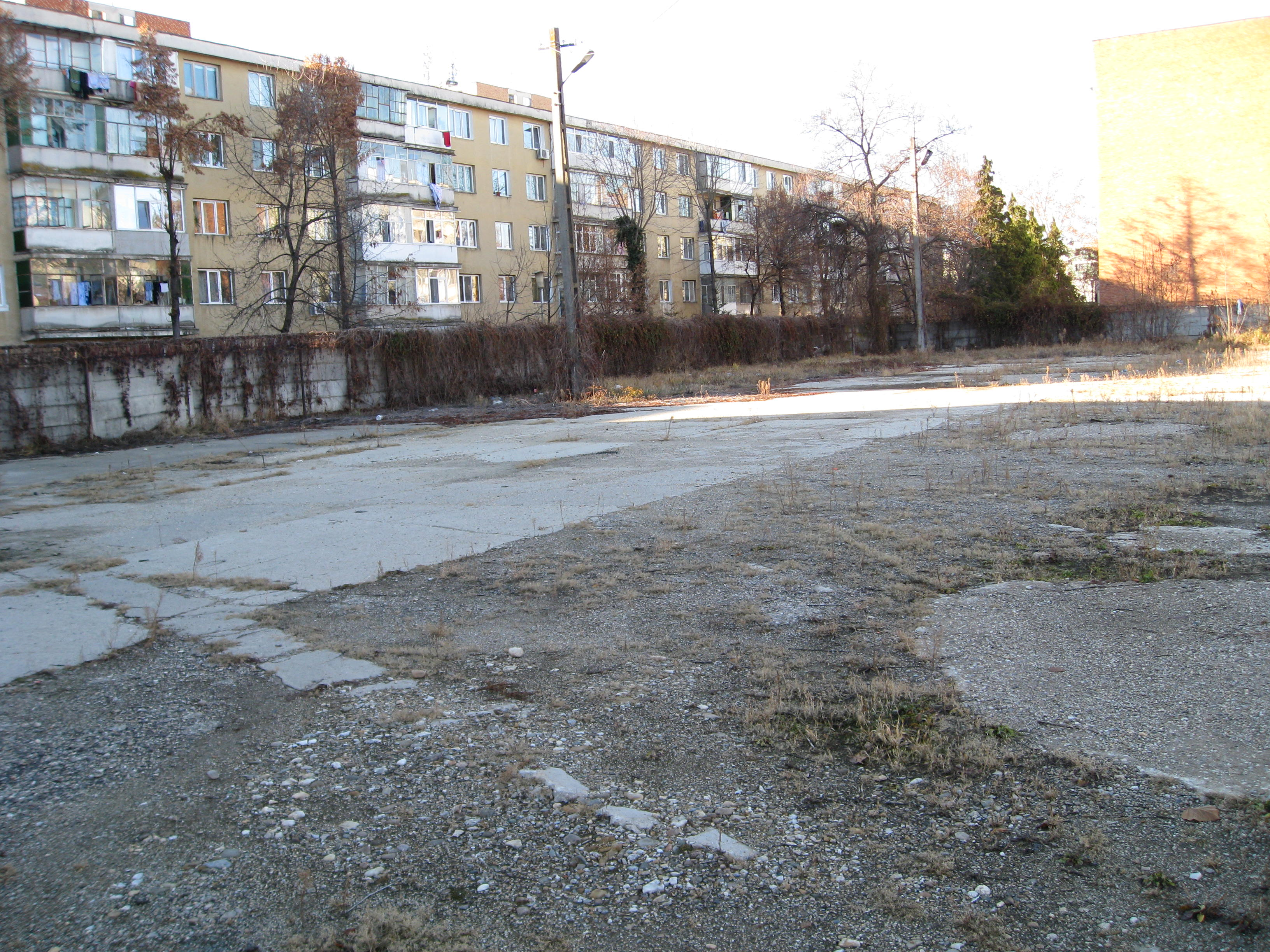 Yard of the Piteşti prison in Romania